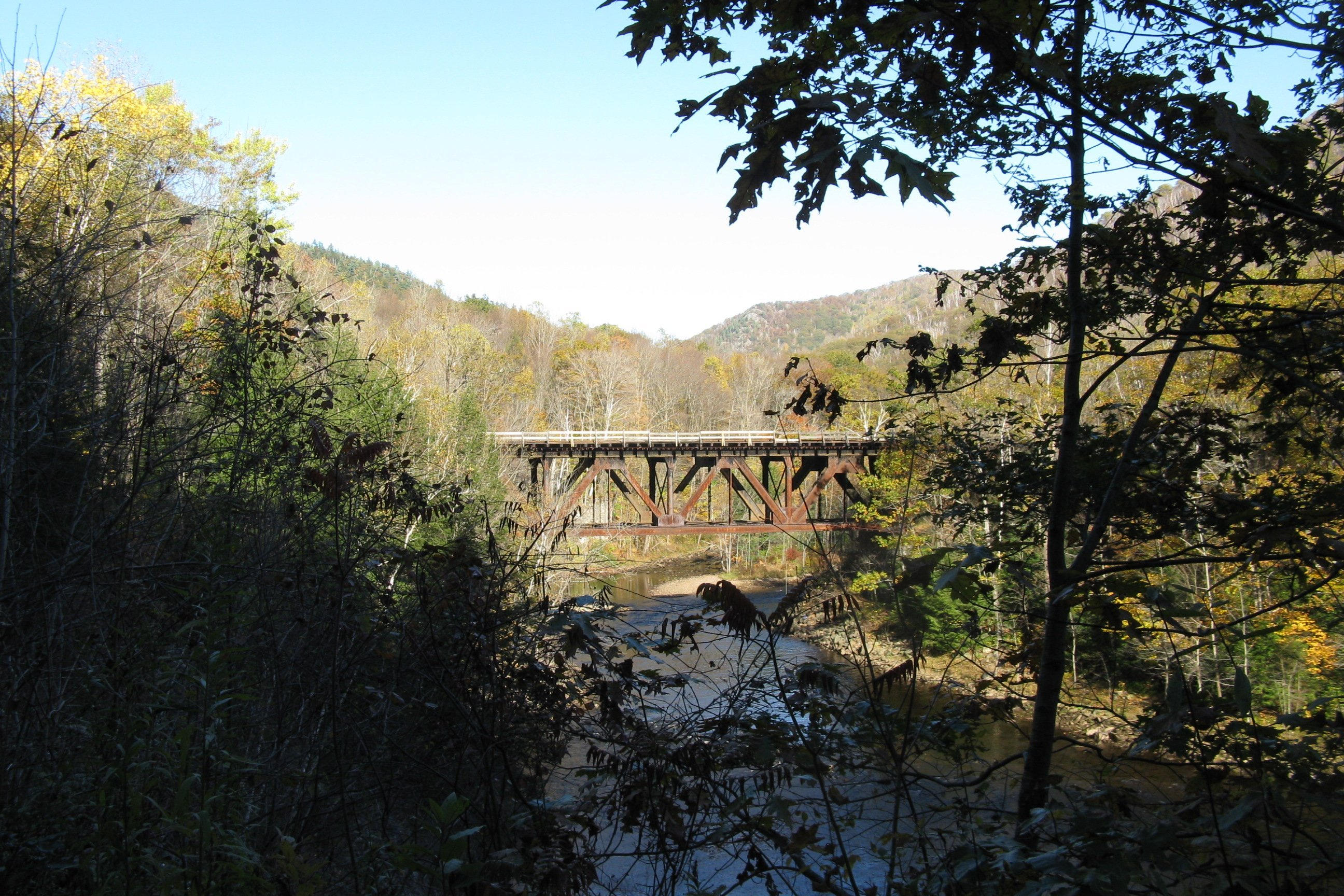 Fitchburg Railroad (now Pan Am) Bridge over the Deerfield River between Florida and Rowe Massachusetts